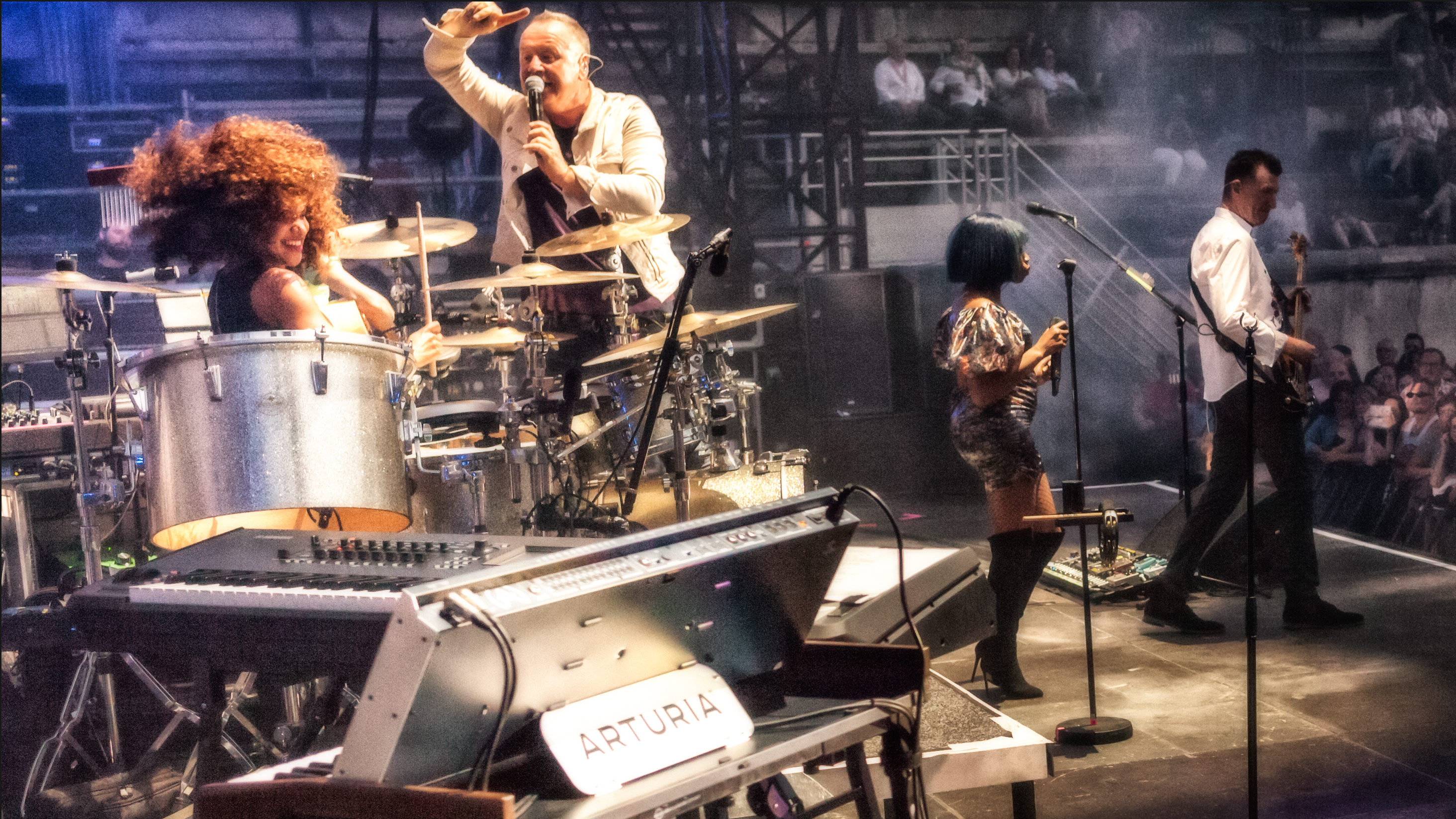 Cherisse Osei and Jim Kerr of Simple Minds live